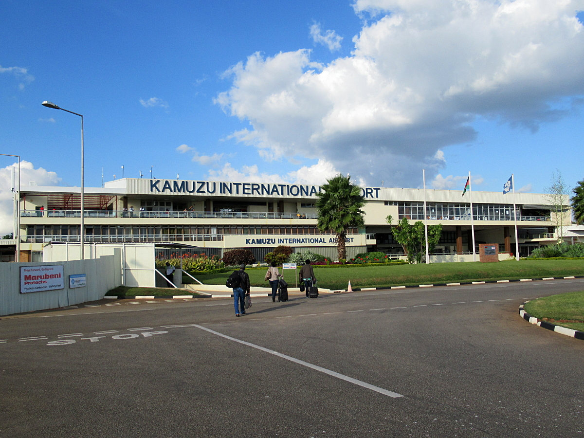 Airside view of terminal at Lilongwe Kamuzu International Airport (LLW / FWKI)